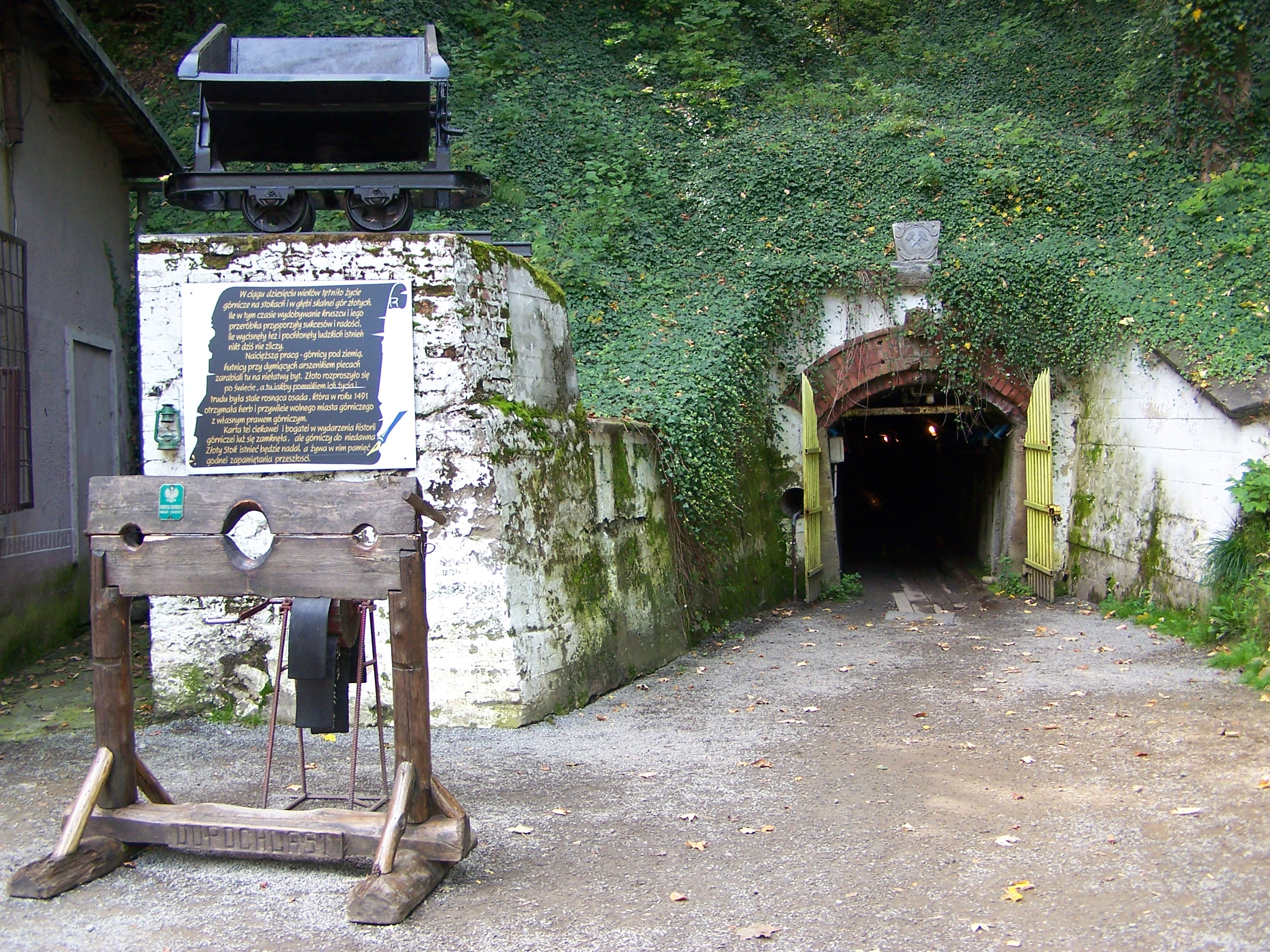 Gold Mine in Złoty Stok (Lower Silesia, Poland).